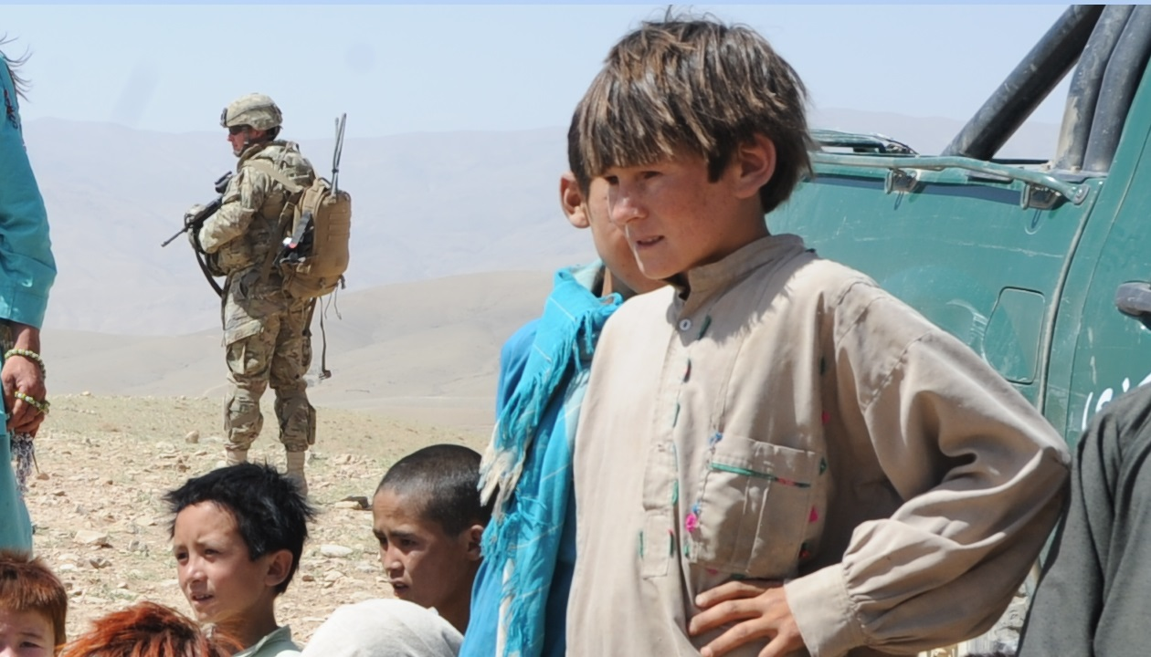 Hazara of Daykundi province